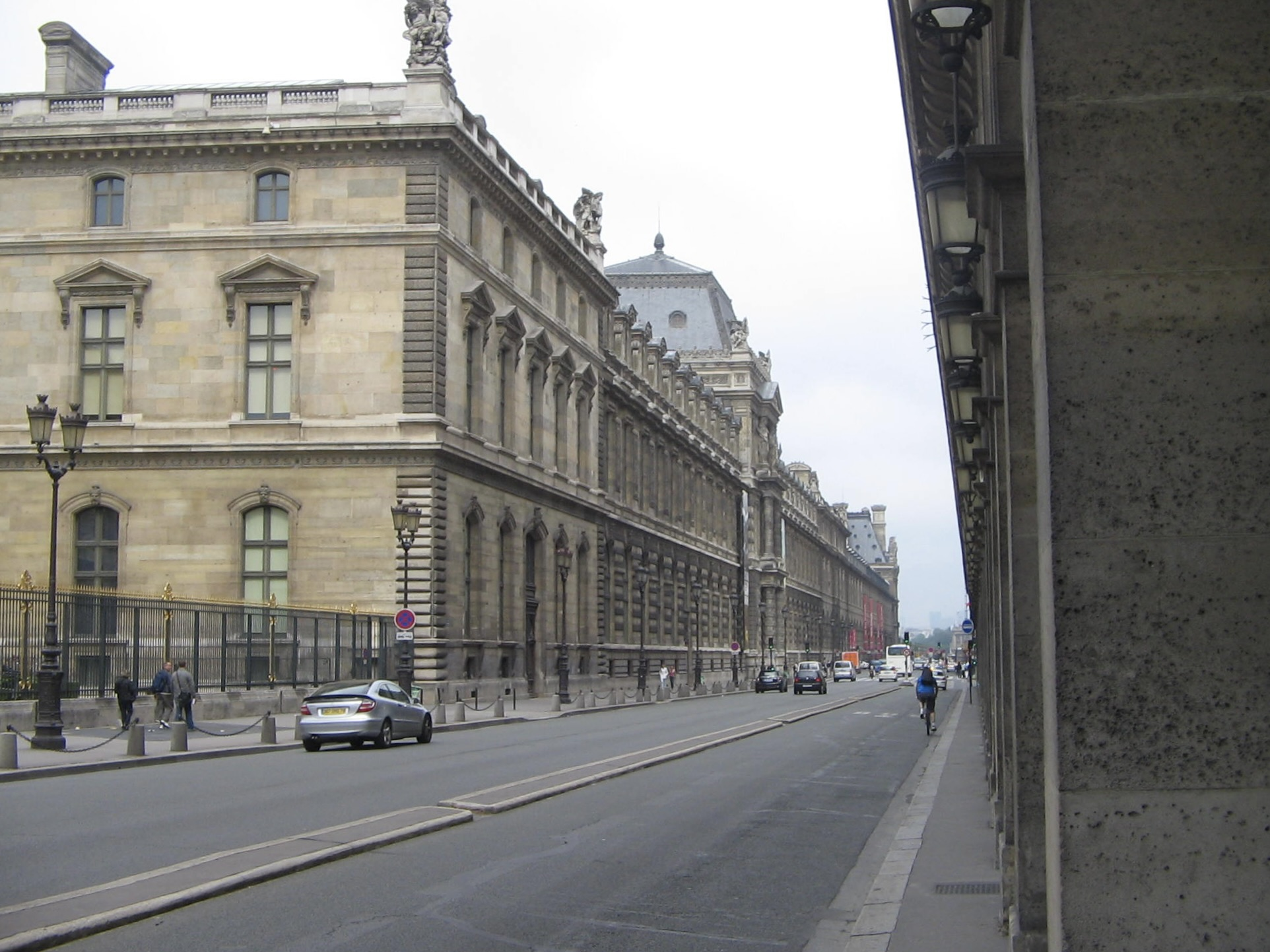 The Louvre as seen from the opposite side of the rue de Rivoli, Paris (75001)